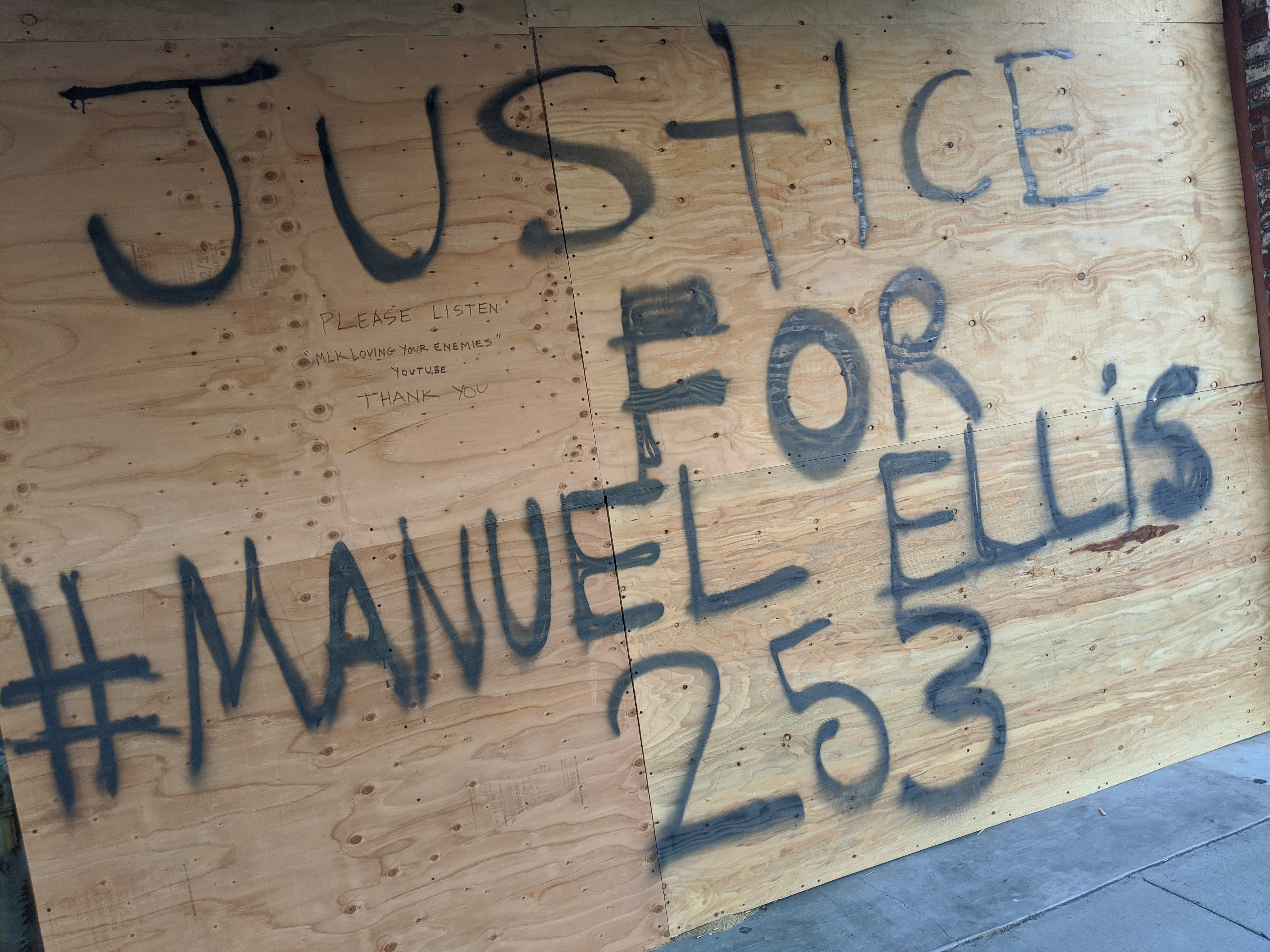 Justice for Manuel Ellis, boarded shop window, Magnolia Park, Burbank, California, USA